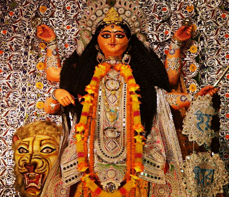 The oldest puja at Boinchi